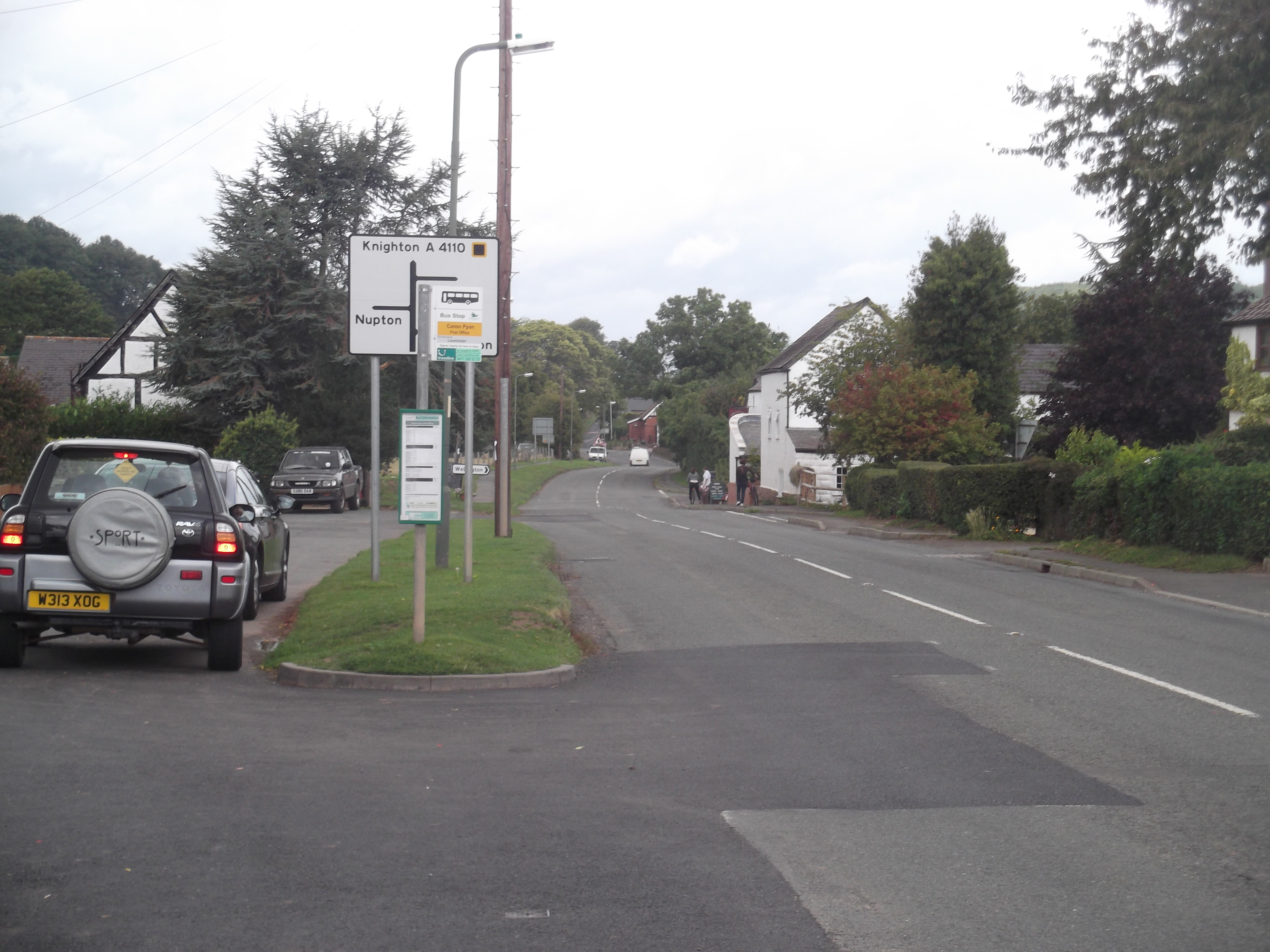 Canon Pyon main street